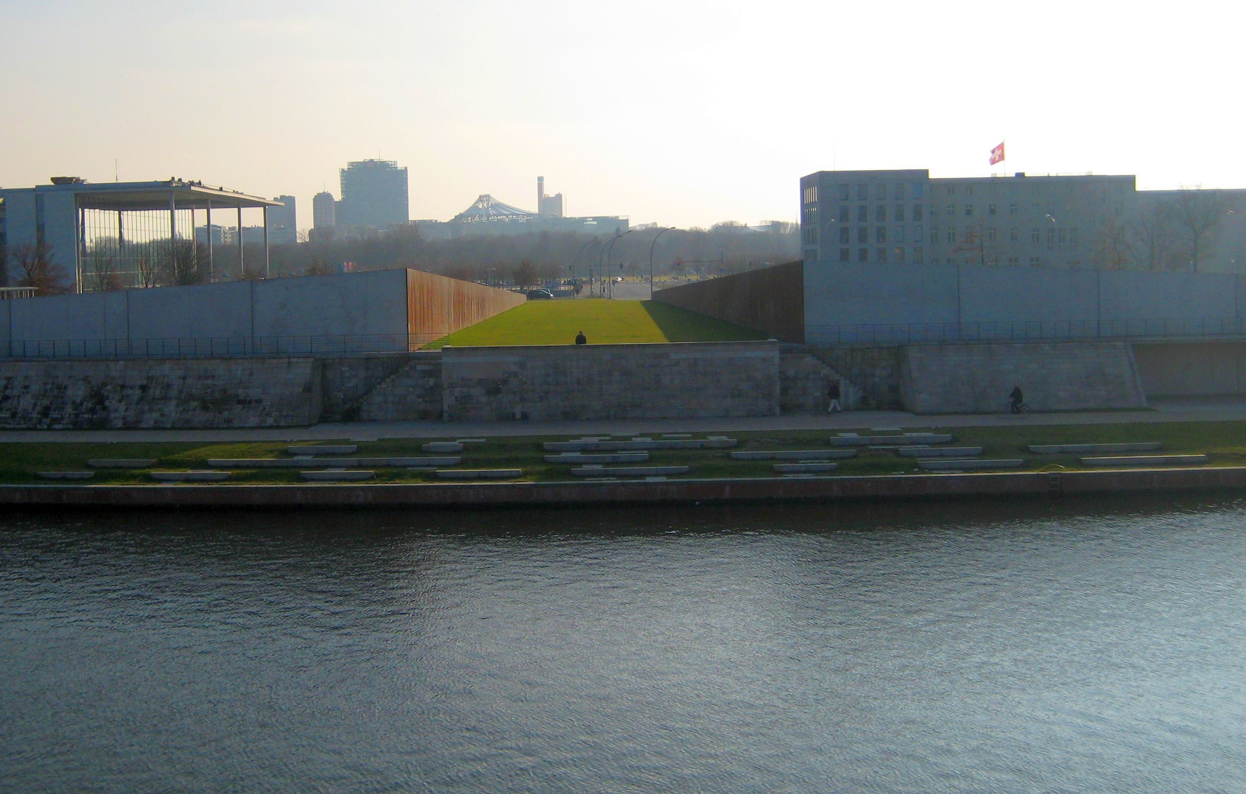 Spreebogenpark in Berlin with building on Potsdamer Platz on the horizon